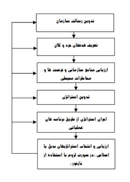 strategic planning6